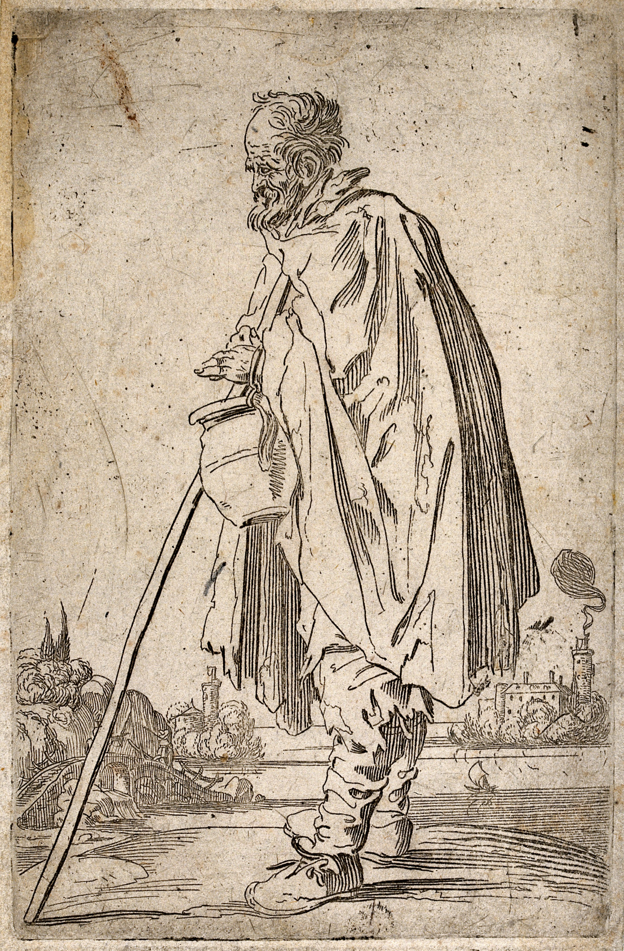 A bearded beggar dressed in a ragged cloak, holding a drinking vessel and a staff. Etching with engraving, possibly after J. Callot. Iconographic Collections Keywords: Jacques Callot